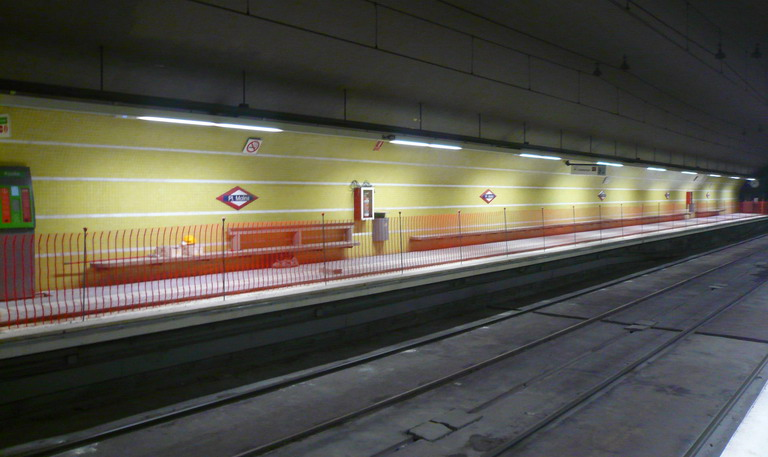 Plaça Molina station.